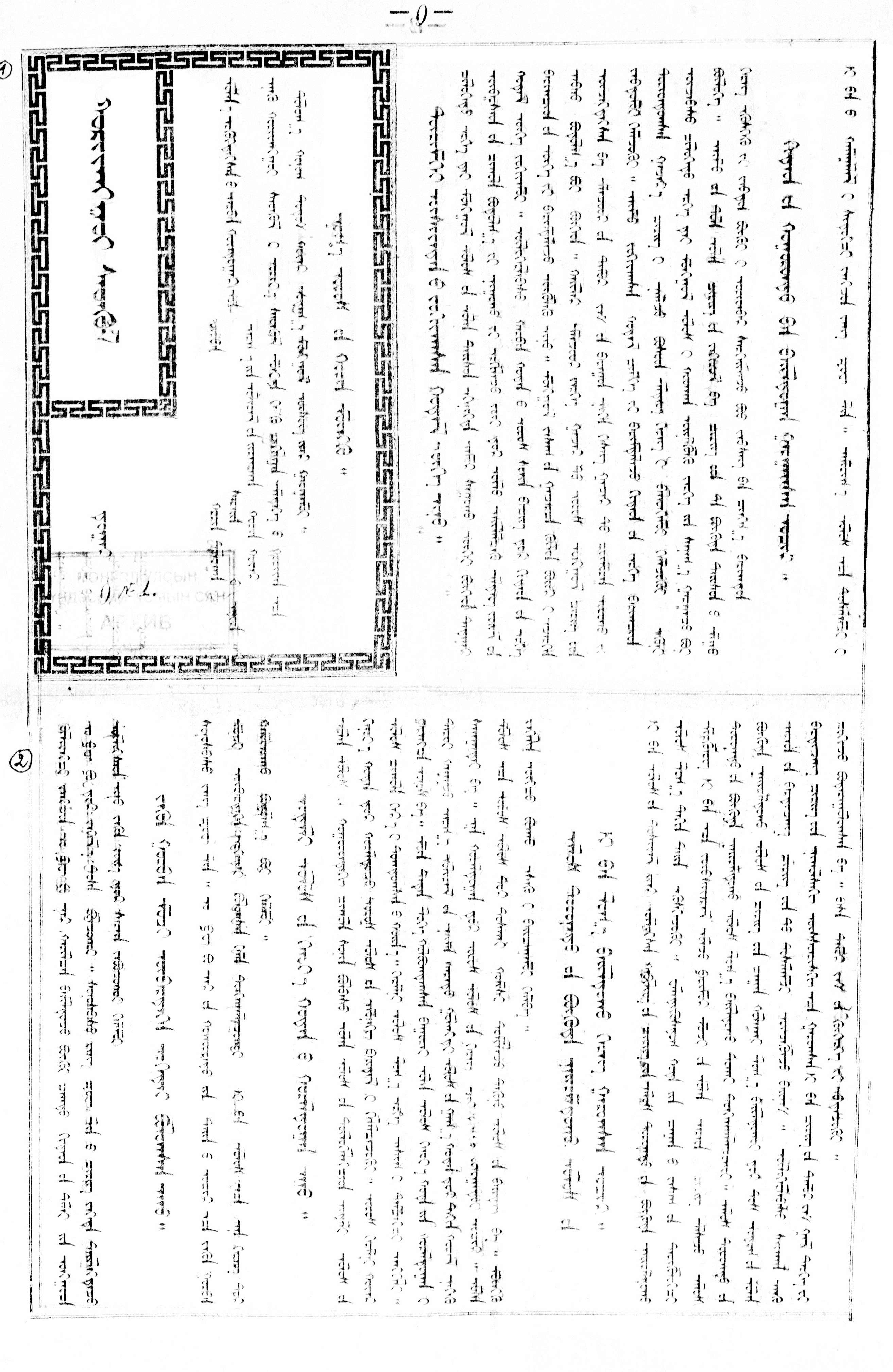 "Хураангуй сэтгүүл"-ийн 1922 оны дугаар.